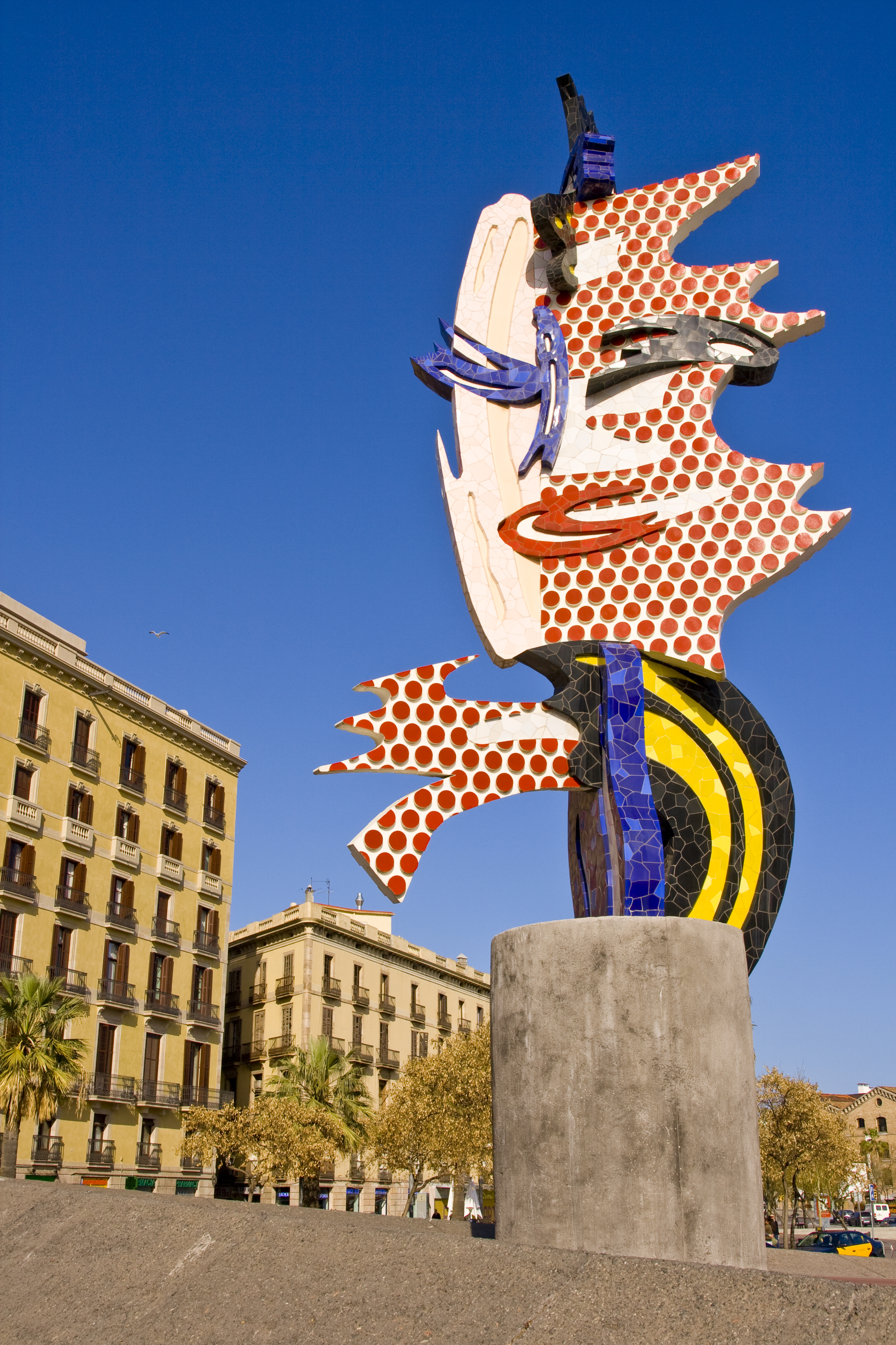 Cap de Barcelona (Barcelona Head) by Roy Lichtenstein